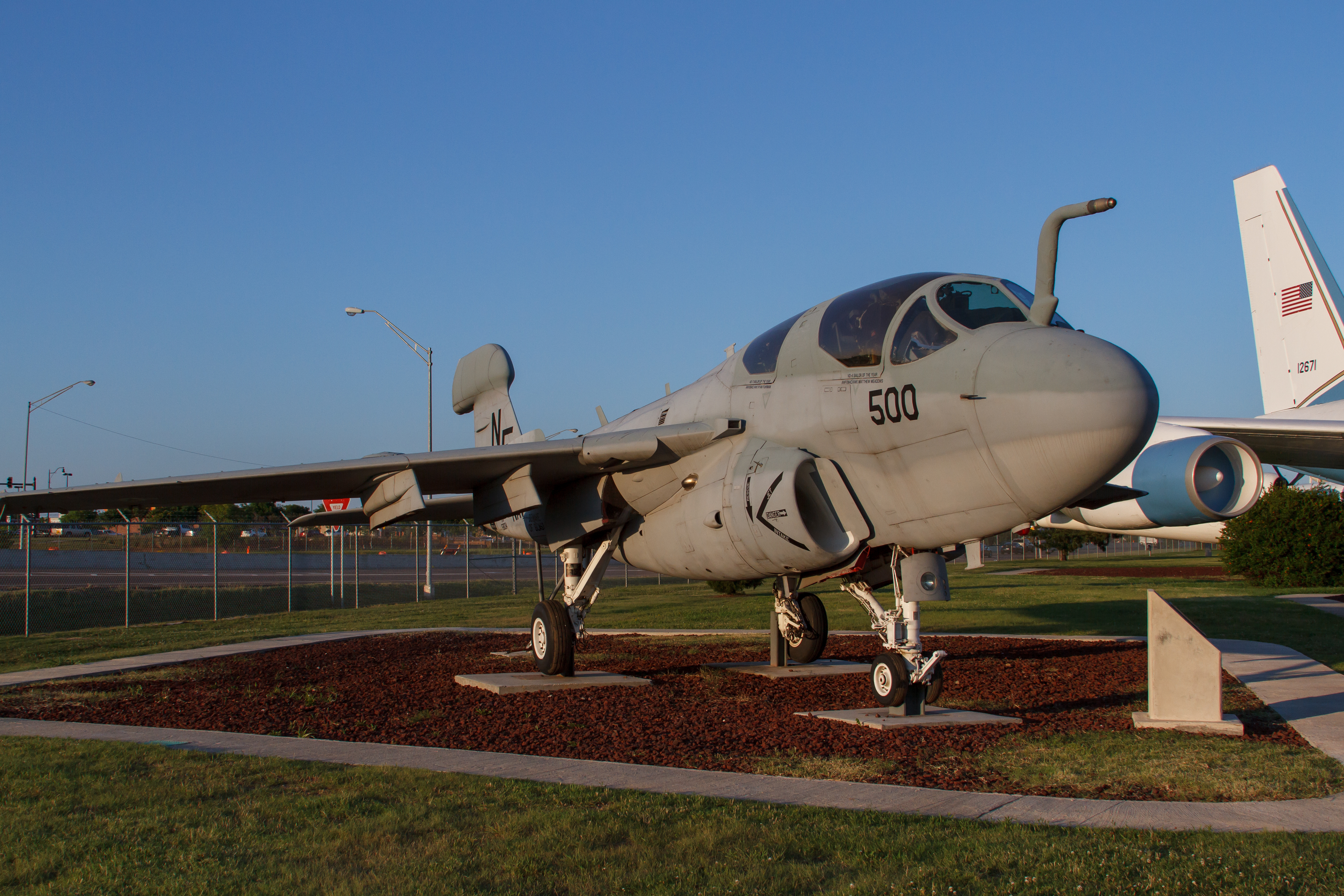 An EA-6B Prowler on display in the Charles B. Hall Airpark at Tinker Air Force Base in Oklahoma City, Oklahoma.